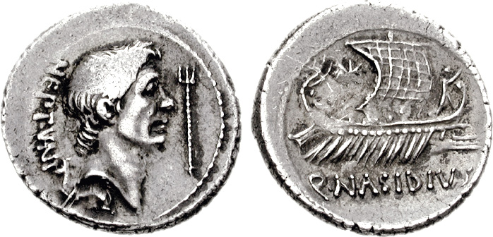 Sextus Pompey. 44-43 BC. AR Denarius (3.85 g, 3h). Massilia (Gaul) mint. Q. Nasidius, moneyer. Bare head of Pompey the Great right; trident before, dolphin below / Ship sailing right; star above. Crawford 483/2; CRI 235; Sydenham 1350; RSC 20. Good VF, wonderful gray cabinet toning, slightly soft strike on obverse.